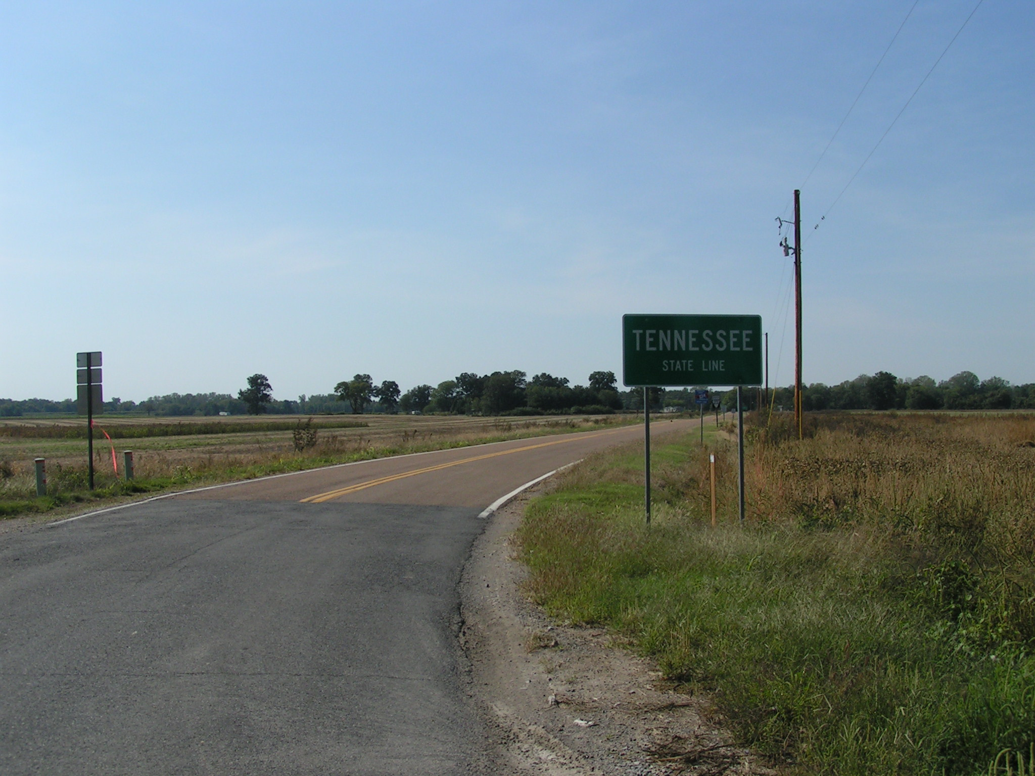 State line between the Kentucky Bend and Route 22 in Tennessee. A "State Route 22" sign is visible between the posts of the state line sign. Photo by Mark Allender - 13 October, 2007